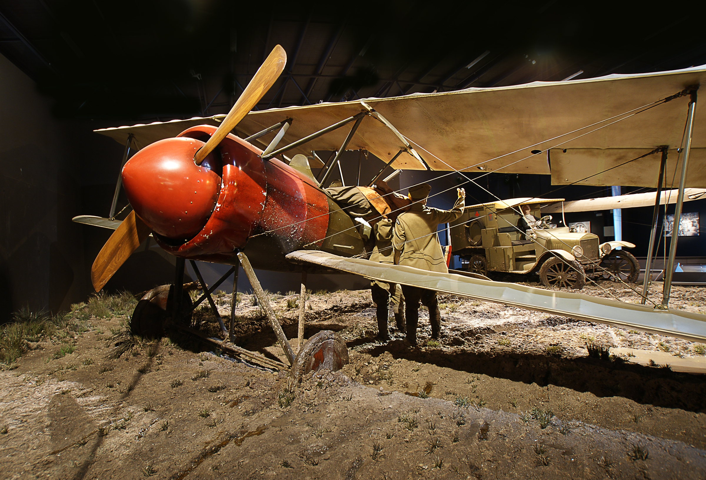 The Morane-Saulnier BB was a military observation aircraft produced in France during World War I for use by Britain's Royal Flying Corps. It was a conventional single-bay biplane design with seating for the pilot and observer in tandem, open cockpits. The original order called for 150 aircraft powered by 110-hp Le Rhône engines, but shortages meant that most of the 94 aircraft eventually built were delivered with the 80 hp Le Rhônes instead.